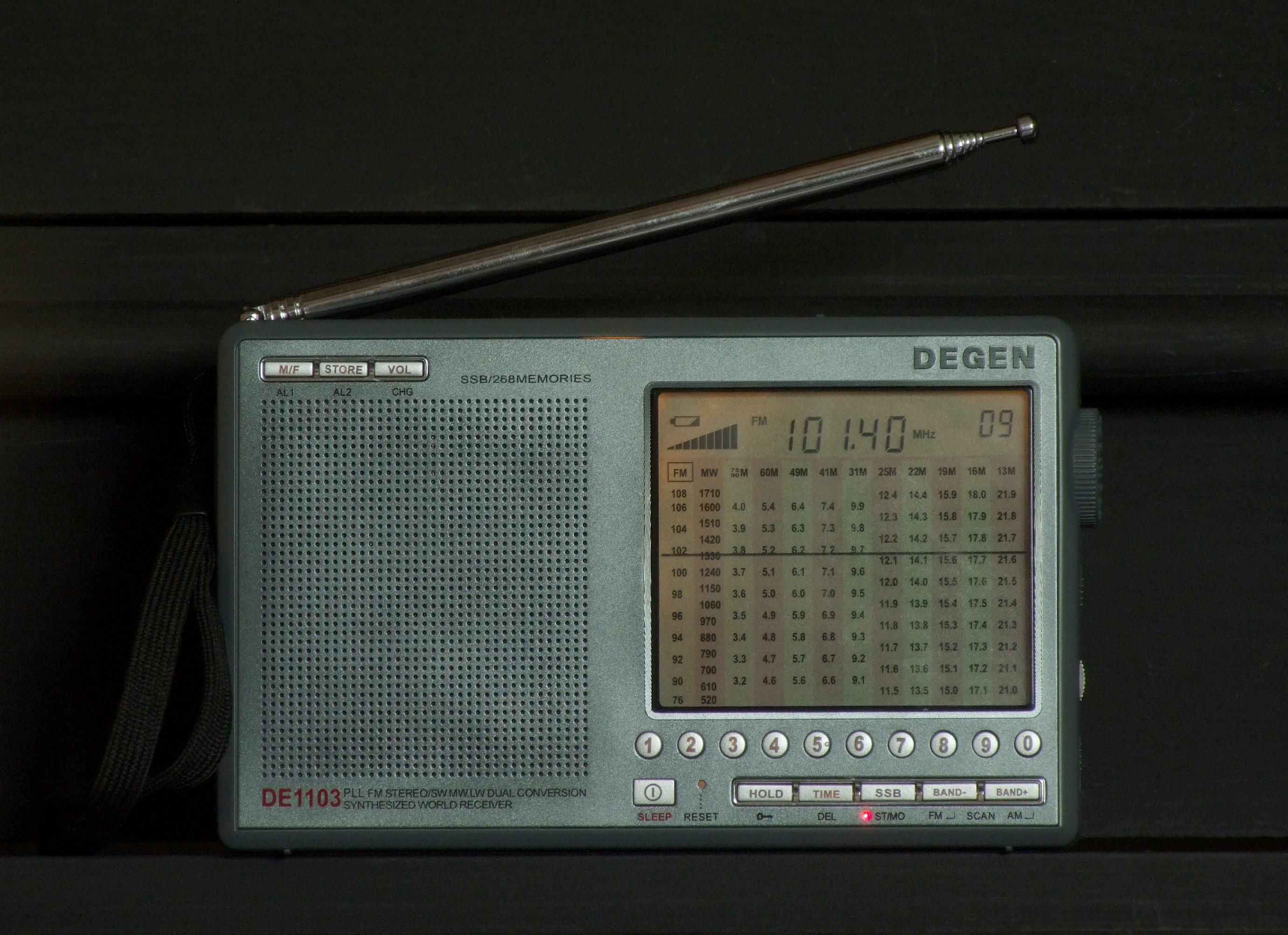 DE1103,an advanced world receiver with ssb modulation and dual conversion by Degen